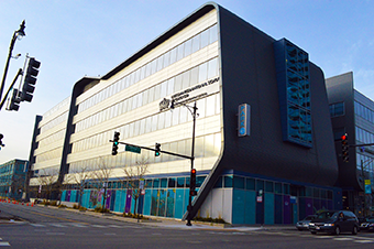 British International School of Chicago, Lincoln Park campus